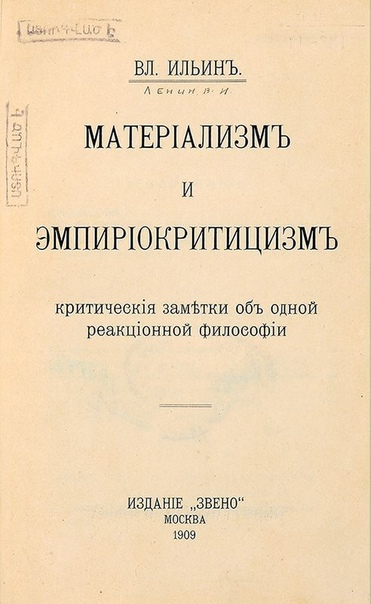 Front cover of the first edition of Materialism and Empirio-Criticism by V.I. Lenin. Published in 1909 by the Zveno Publishing House, Moscow. Digitized by Tim Davenport for Wikipedia, no copyright claimed.